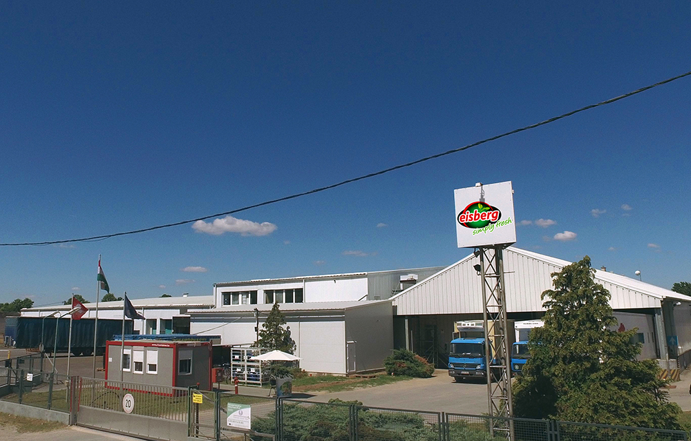 Eisberg Ungarn in Gyal nahe Budapest